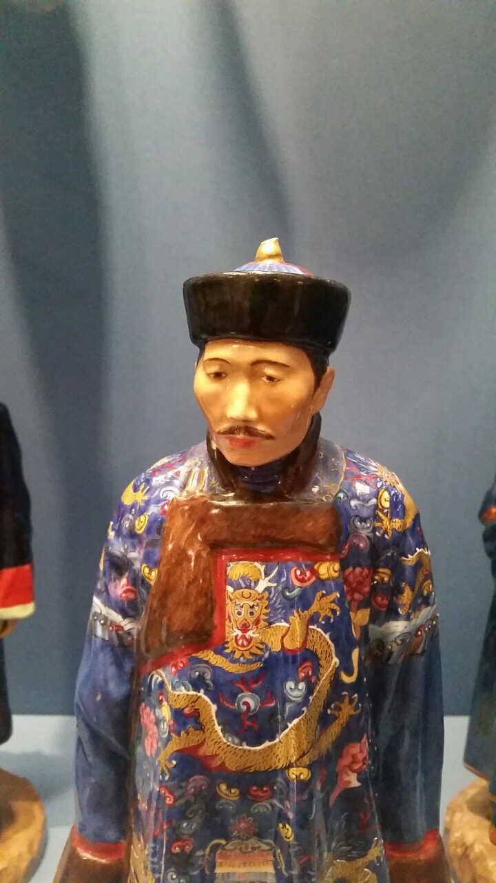 St.Petersburg. The Museum of the Imperial Porcelain Factory. Sculptures from the series "Peoples of Russia." "Great Russian Ryazan Governorate" (center). Models by P.P. Kamensky (1858-1922). Imperial Porcelain Factory, Russia. 1907-1917 gg. Porcelain, polychrome overglaze painting, gilding, silvering, platinum lustre, tooled.